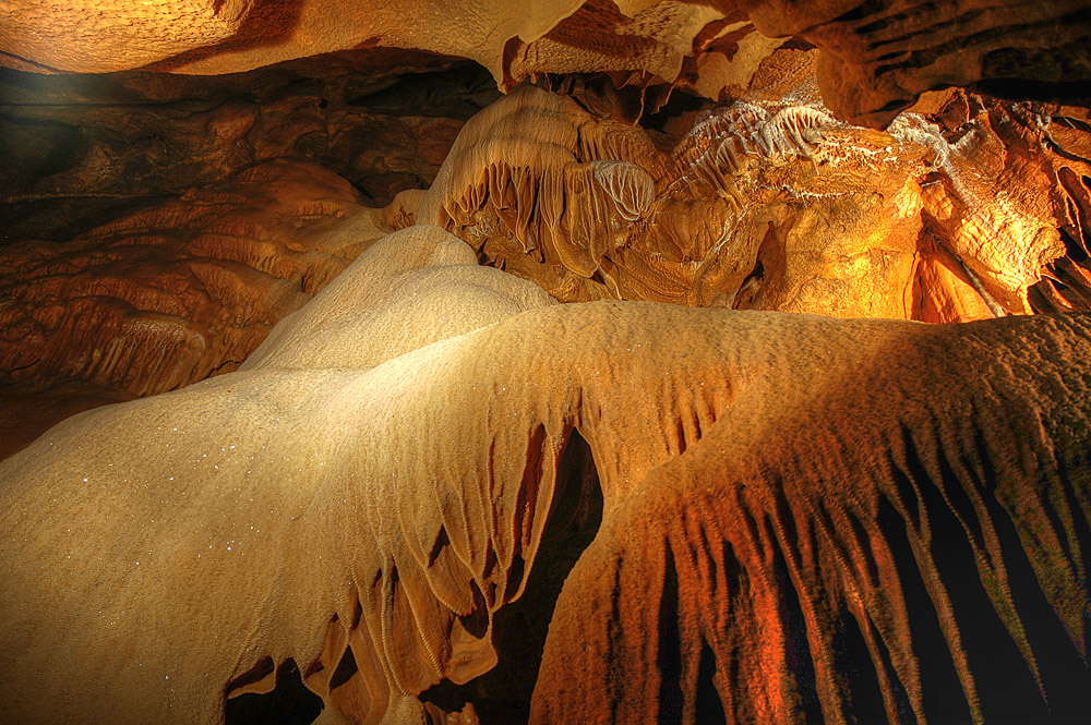 Stalactite formation named 'Orange waterfall' in Vass Imre Cave in Jósvafő, Hungary.